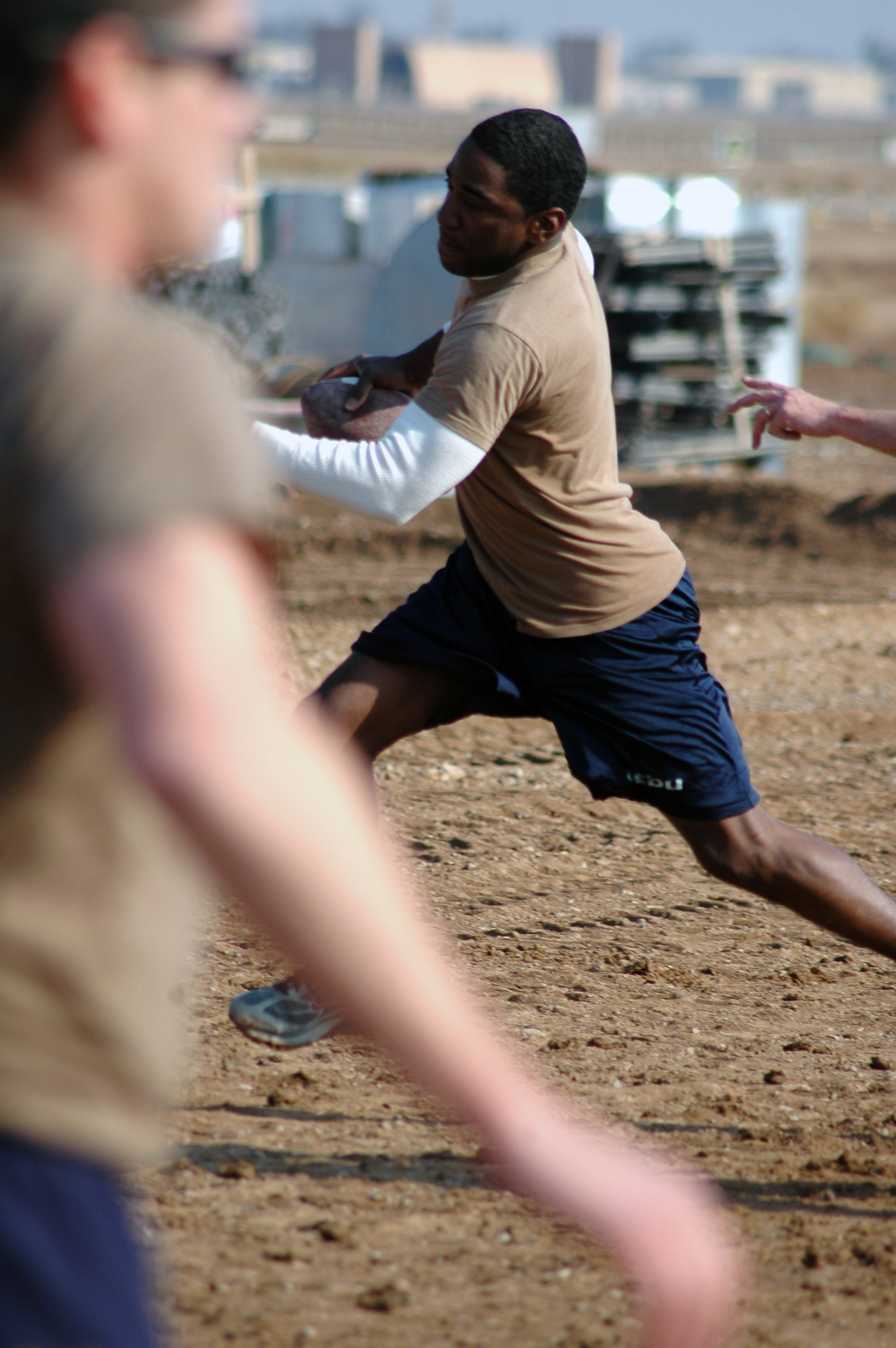 IRAQ (Jan. 12, 2008) Builder 3rd Class Bryan Williams, assigned to Naval Mobile Construction Battalion (NMCB) 1, Task Force Sierra, scrambles out of a defender's reach in a two-hand-touch football game during the detachment's mid-deployment celebration. NMCB-1 is deployed to several locations in the Middle East and Afghanistan providing responsive military construction support to U.S. military operations. U.S. Navy photo by Mass Communication Specialist 2nd Class Demetrius Kennon (Released)